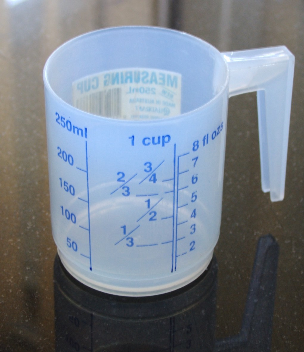 Photograph of a simple measuring cup, taken by me.